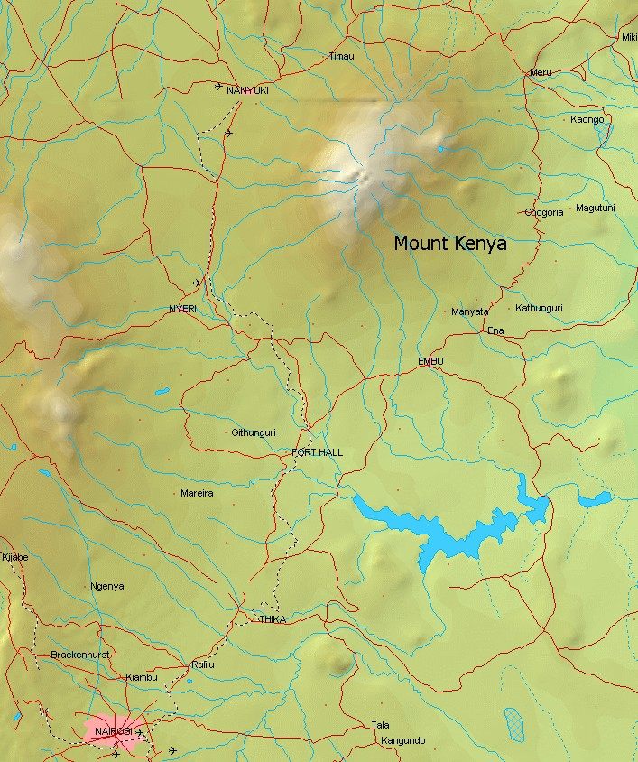 Map of Mount Kenya with Nairobi in the South West